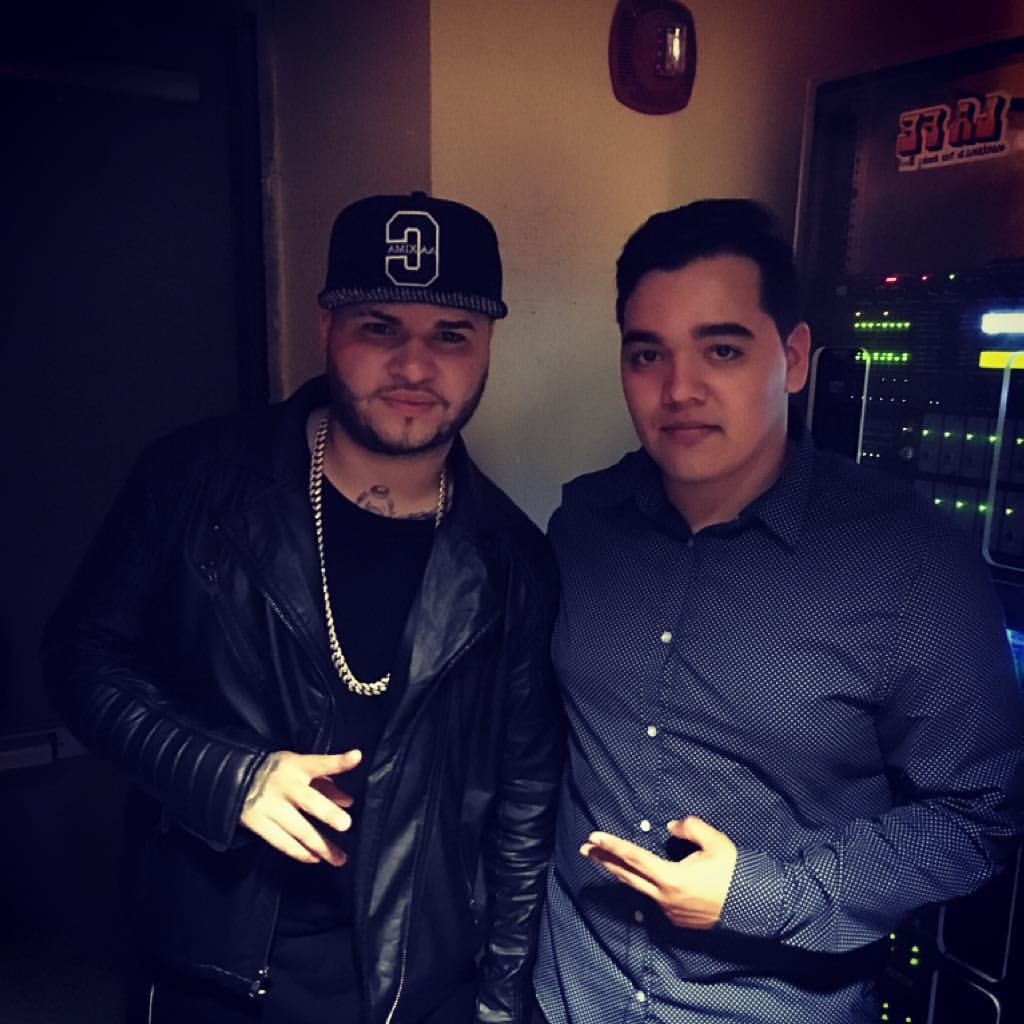 Farruko & Ale Medina GTM